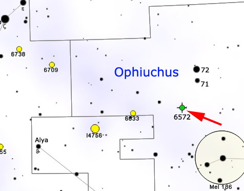 Map of NGC 6572